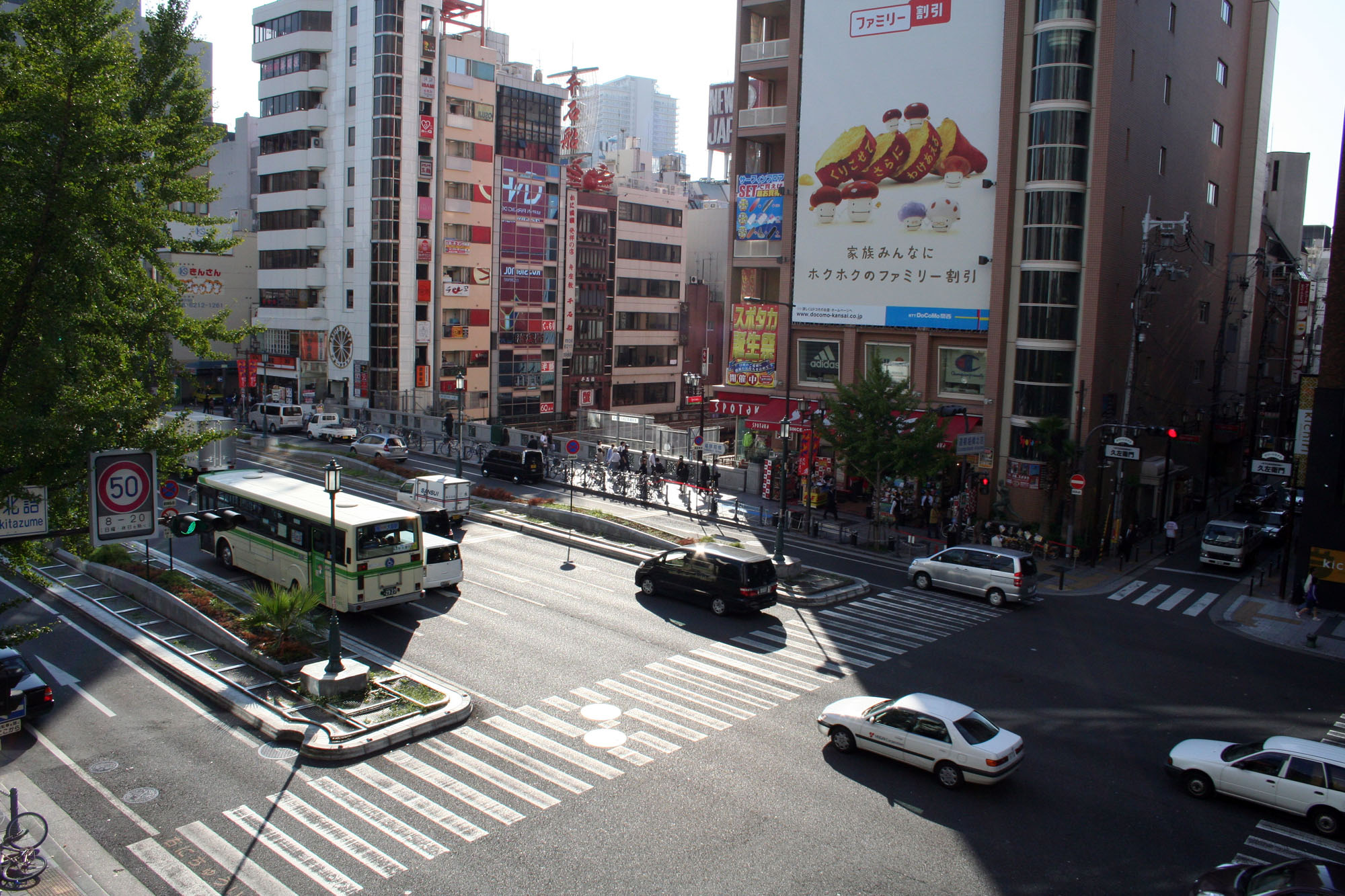 Chuo-ku facing Namba.